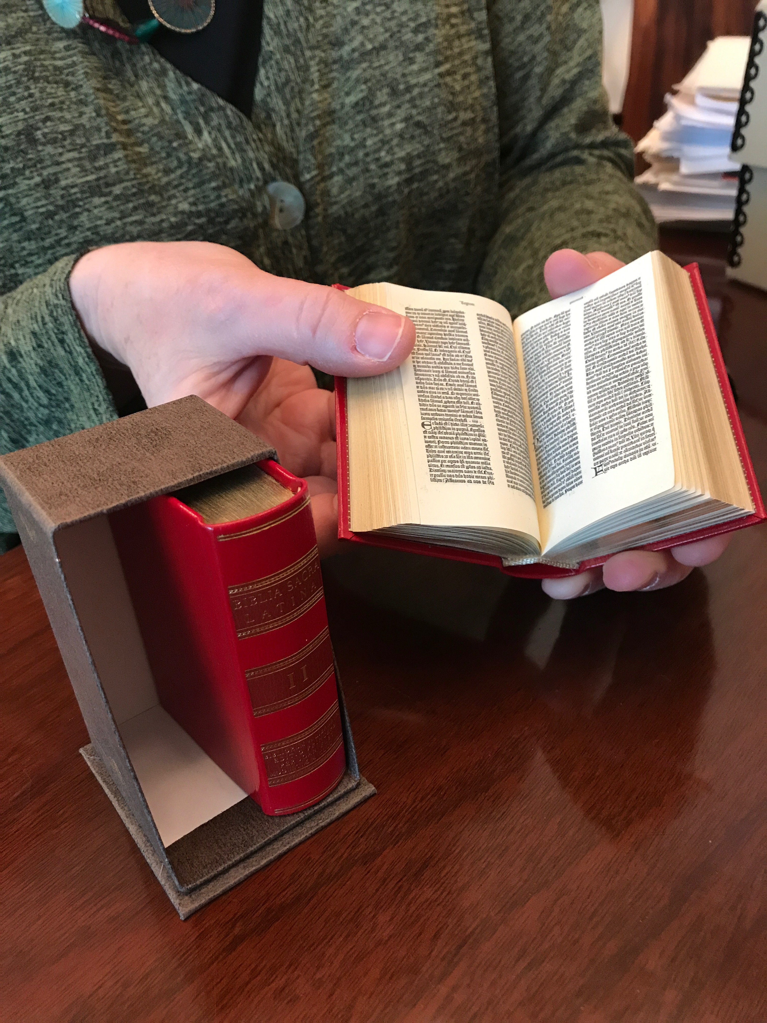 Two volume boxed set of bound books, one held open in a woman's hands to show facsimile of Gutenberg bible text.